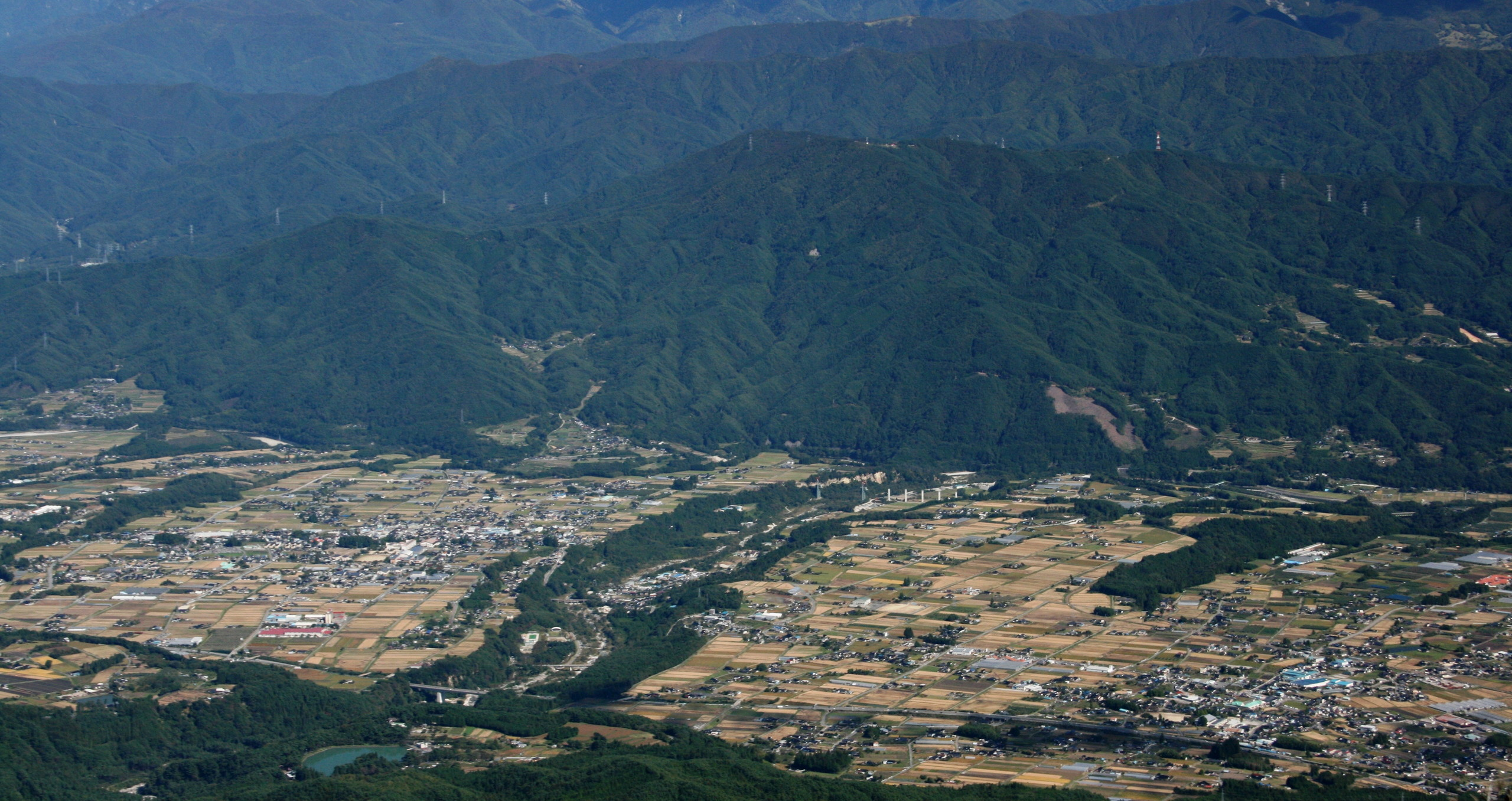 Mount Jinbagata and Iijima, Nagano from Mount Eboshi of Kiso Mountains, in Nagano prefecture, Japan.